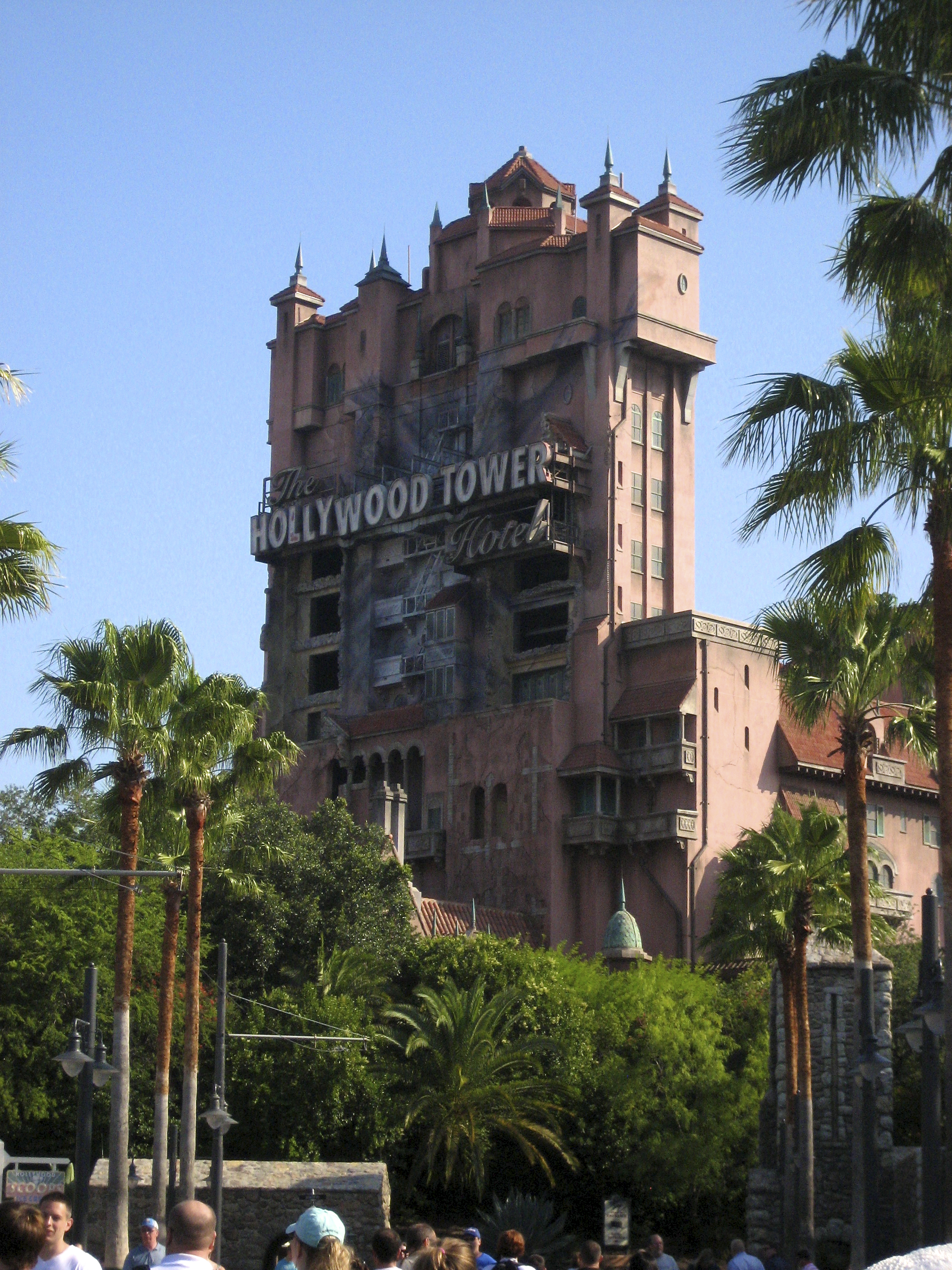 The Hollywood Tower Hotel overlooking Sunset Boulevard